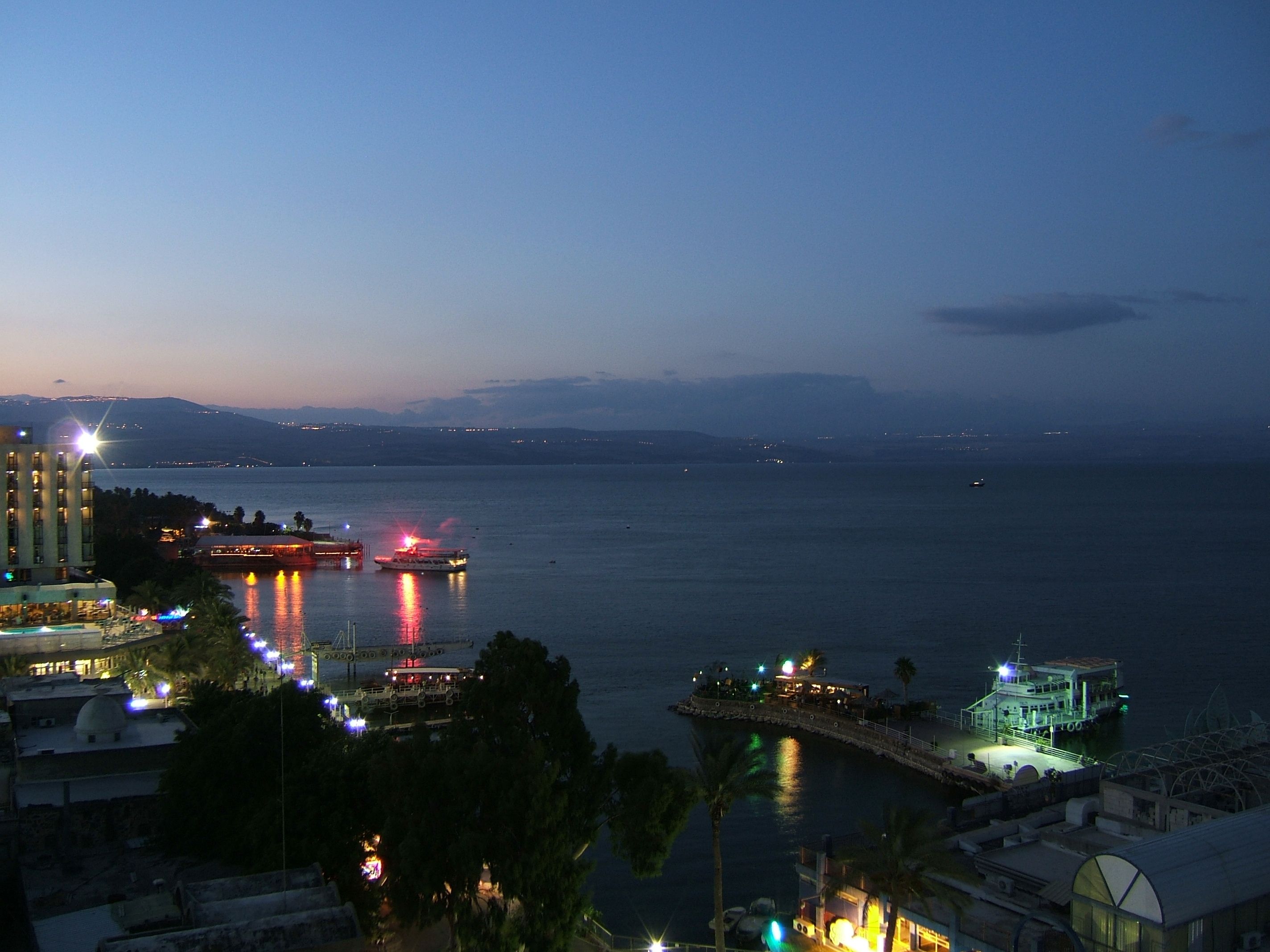 2005 photo of the Sea of Galilee taken from Tiberias, Israel by Bantosh (myself).